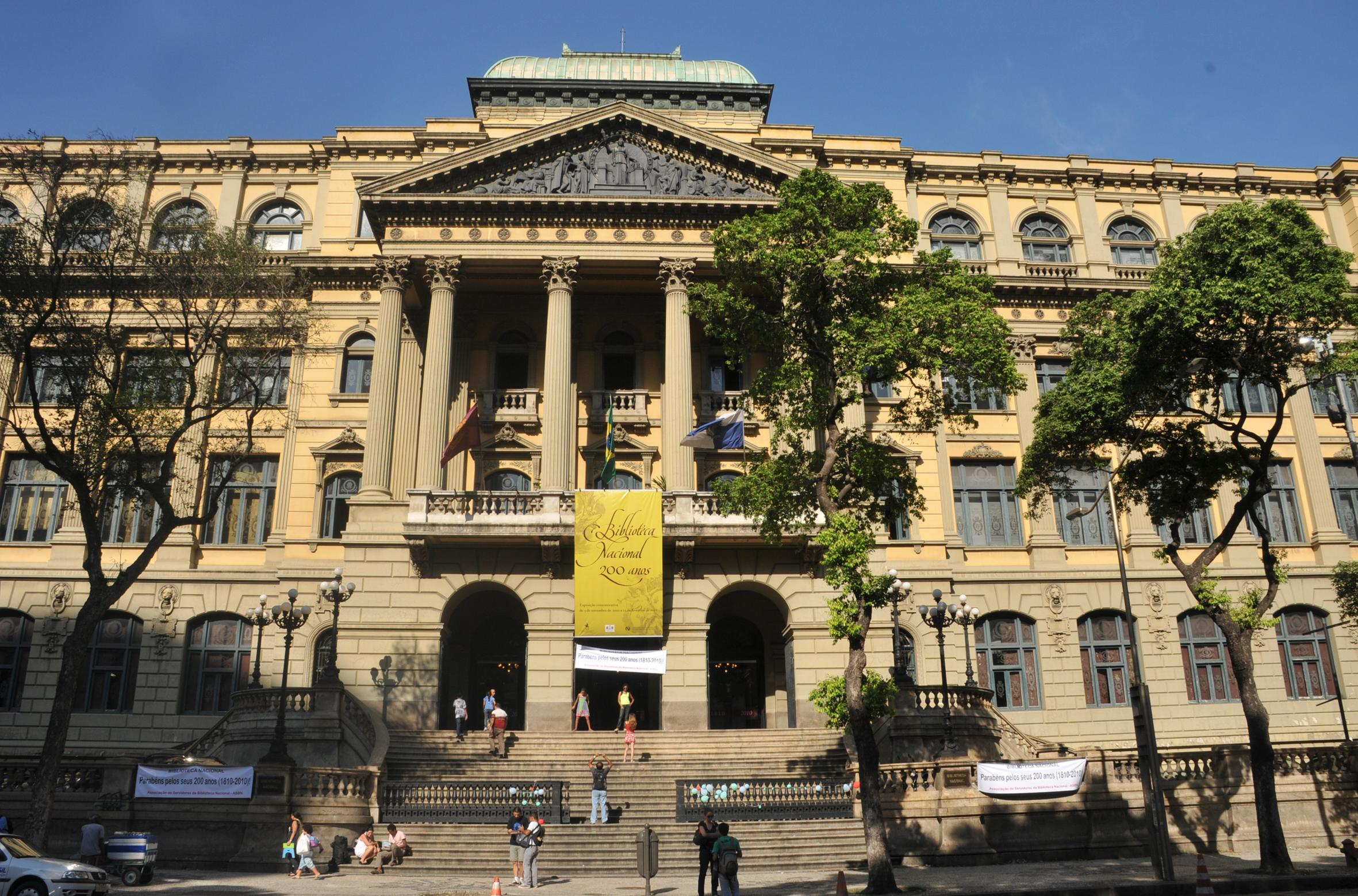 Biblioteca Nacional in Rio de Janeiro city, Brazil.